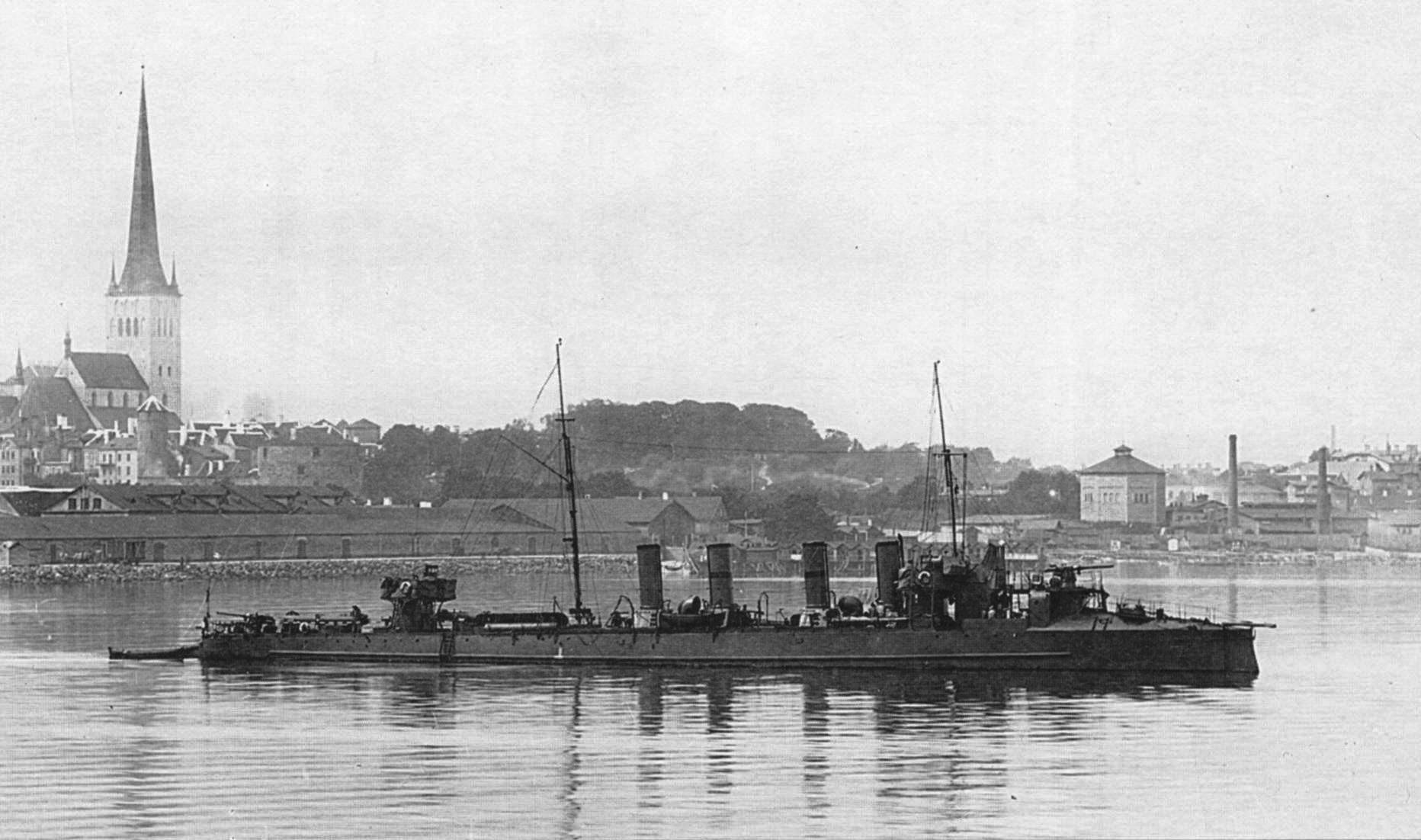 The Imperial Russian torpedo boat destroyer Razyashchiy at Reval, 1910.